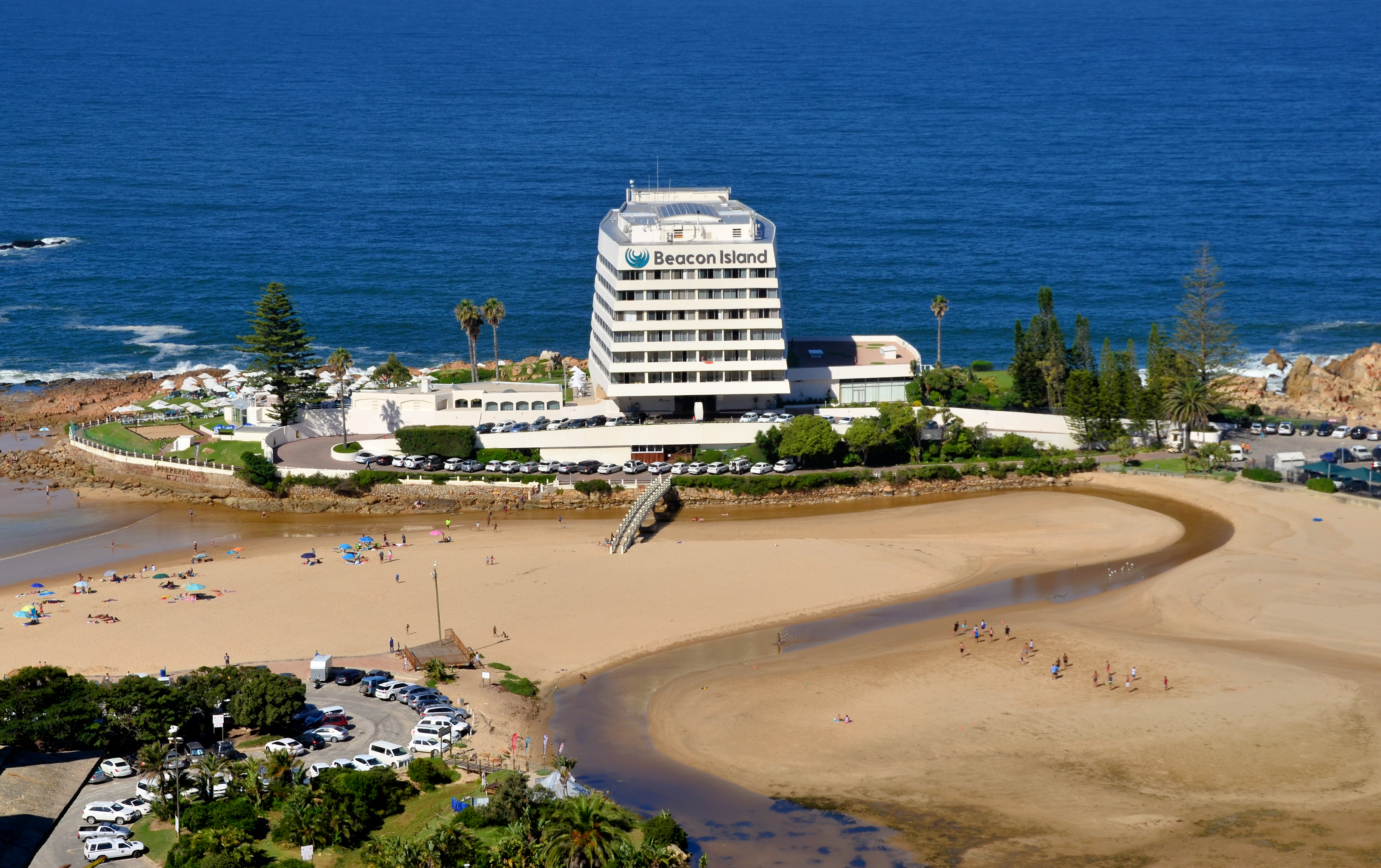 Beacon Island Hotel in Plettenberg Bay, completed in 1972